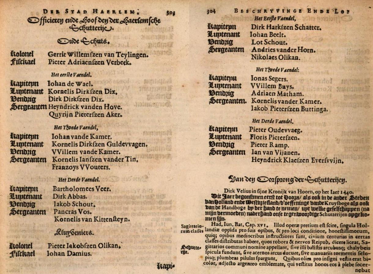 List of members in the Haarlem schutterij in 1628; pages 303 & 304 of "Description of Haarlem" (Beschrijvinge ende lof der stad Haerlem in Holland), 1628